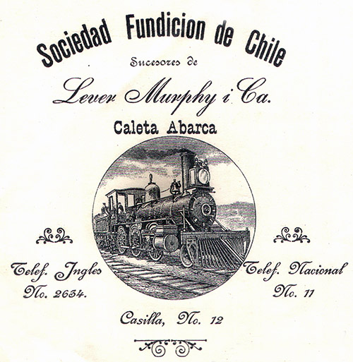 Lever, Murphy & Co. letterhead circa 1905.